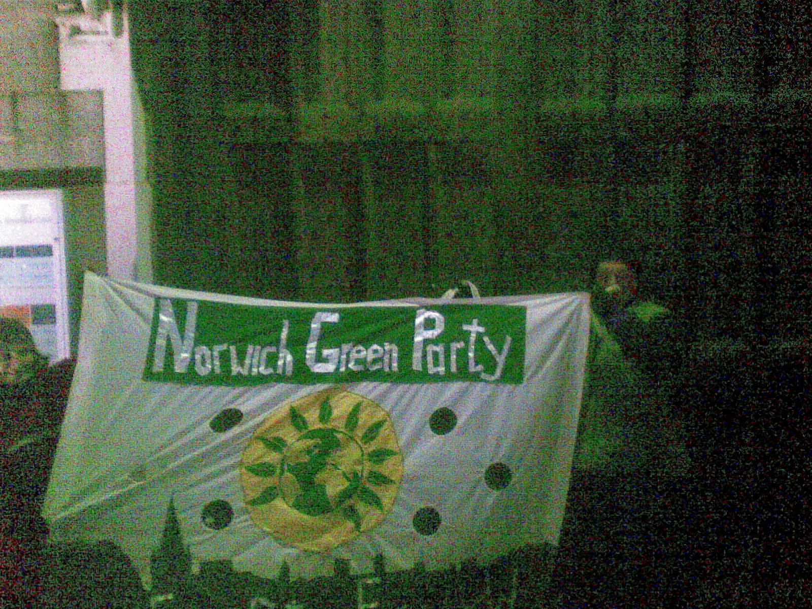 Members of Norwich Occupy (also members of Norwich Green party), gathered by the gates of Norwich castle on the evening of 07 Dec 2011, to commemorate the death of the people's hero Robert Kett.